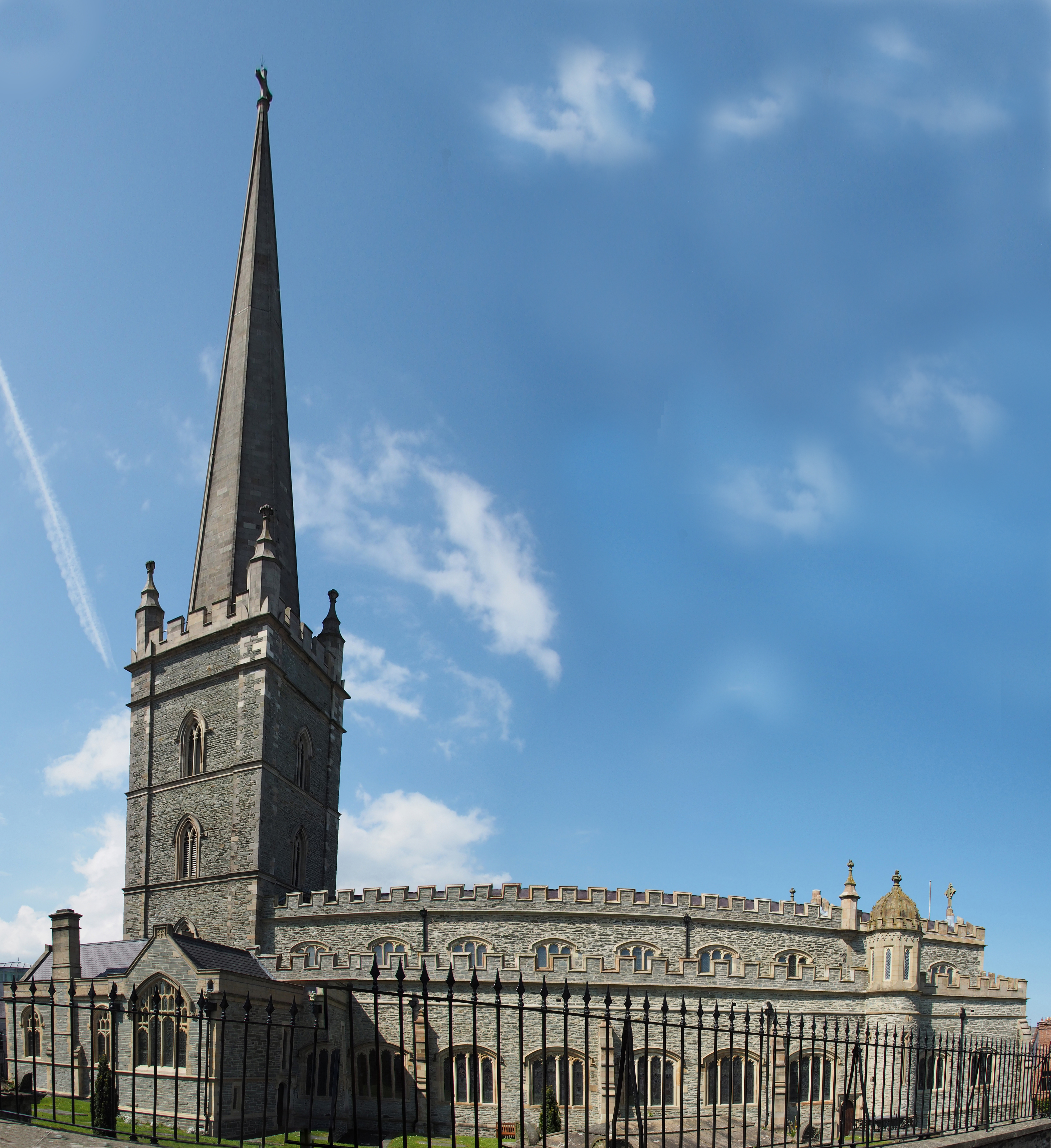 St Columb's Cathedral, Derry/Londonderry , Northern Ireland.